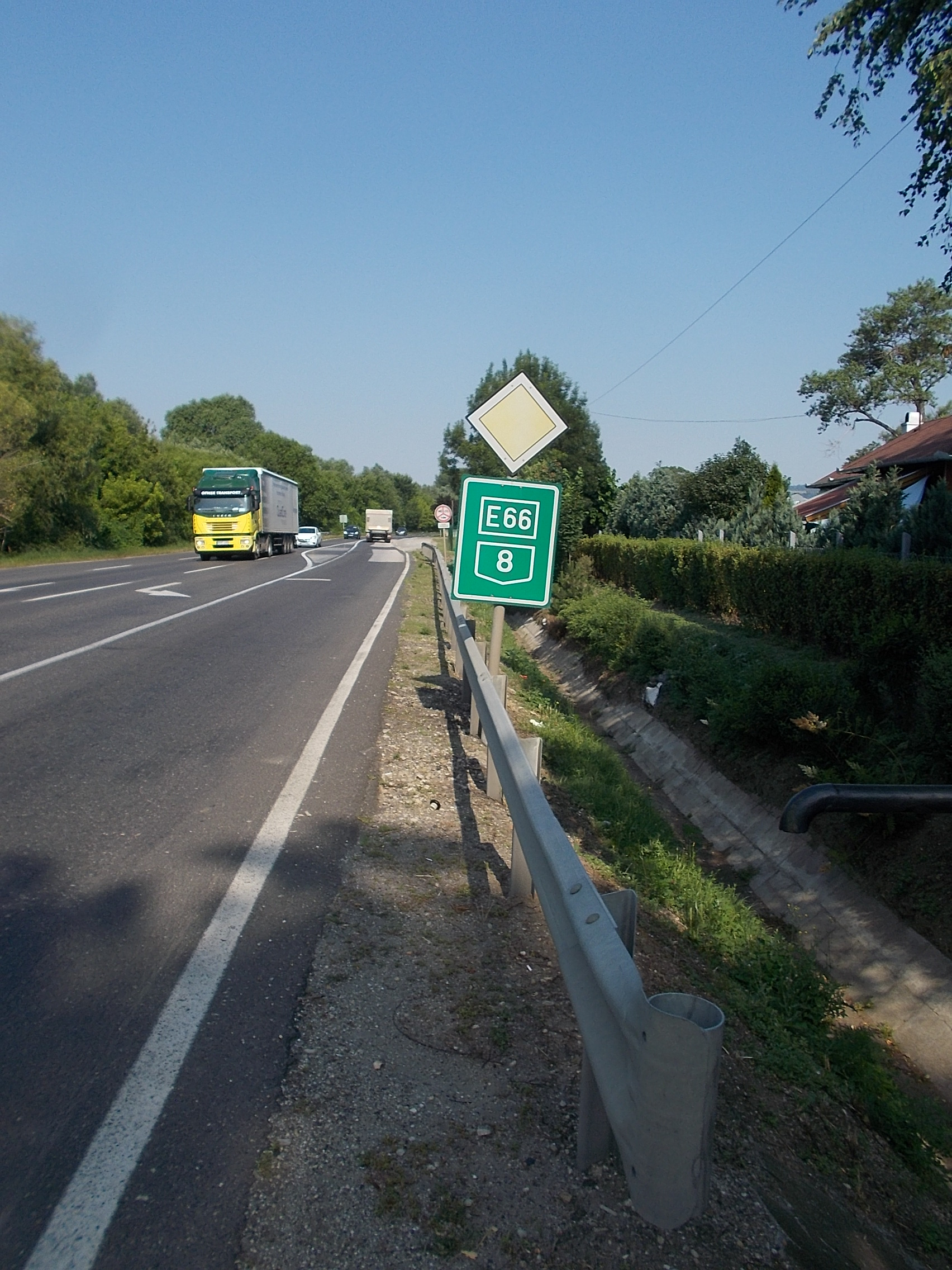 Road 8. - close to Pápai út (Road 7317), Devecser, Veszprém County, Hungary.